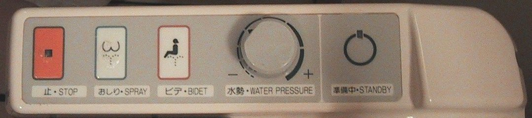 Control panel of a medium sophisticated Japanese toilet, located in the Asahikawa Grand Hotel in Asahikawa, Japan. See JapaneseToiletBidet.jpg for an image of the toilet in operation. The controls are from left to right: Stop: Stops all features of the toilet Spray: The water jet for cleaning the anus Bidet: the water jet for cleaning the vulva Water pressure: Adjusting the water pressure according to personal taste Standby: Not a control, merely a control light blinking if the nozzle prepares with self cleaning. See WirelessToiletControlPanel.jpg for a more sophisticated wireless control panel and Wireless toilet control panel w. open lid.jpg for a high-end model with 38 buttons.